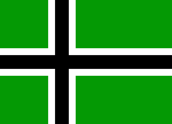 Flag of the Forest Finns, based on an image found on a forum thread. However, the image is defunct, but is relatively easy to find if you search "kven flag" on google. The flag is used as a flag for a "republic" of the forest finns.